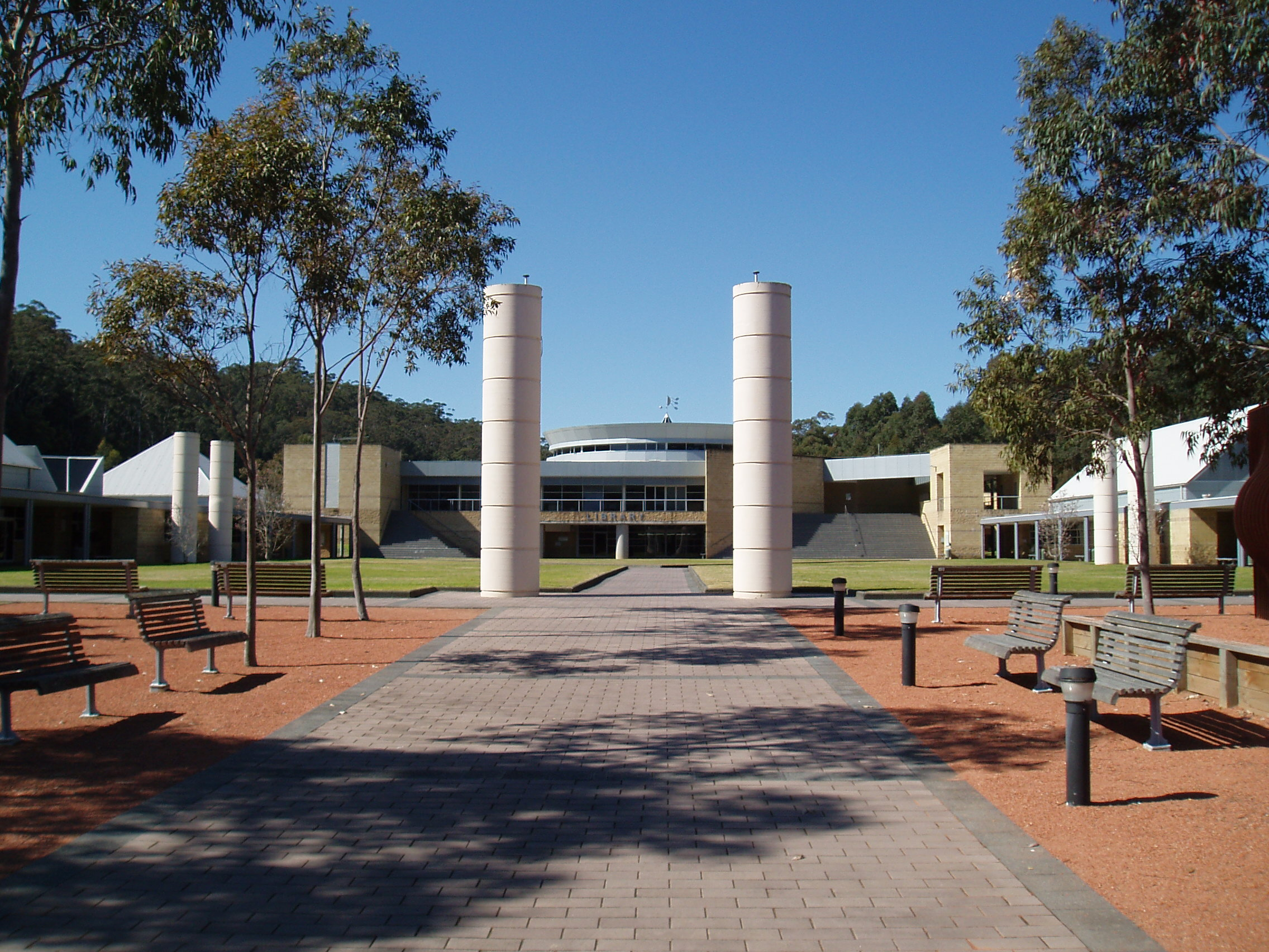 Ourimbah Campus, part of the Central Coast Campuses, on the Central Coast of New South Wales, Australia. Looking towards the library from the entrance.